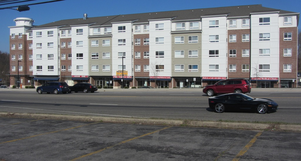 Patuxent Square, Laurel MD